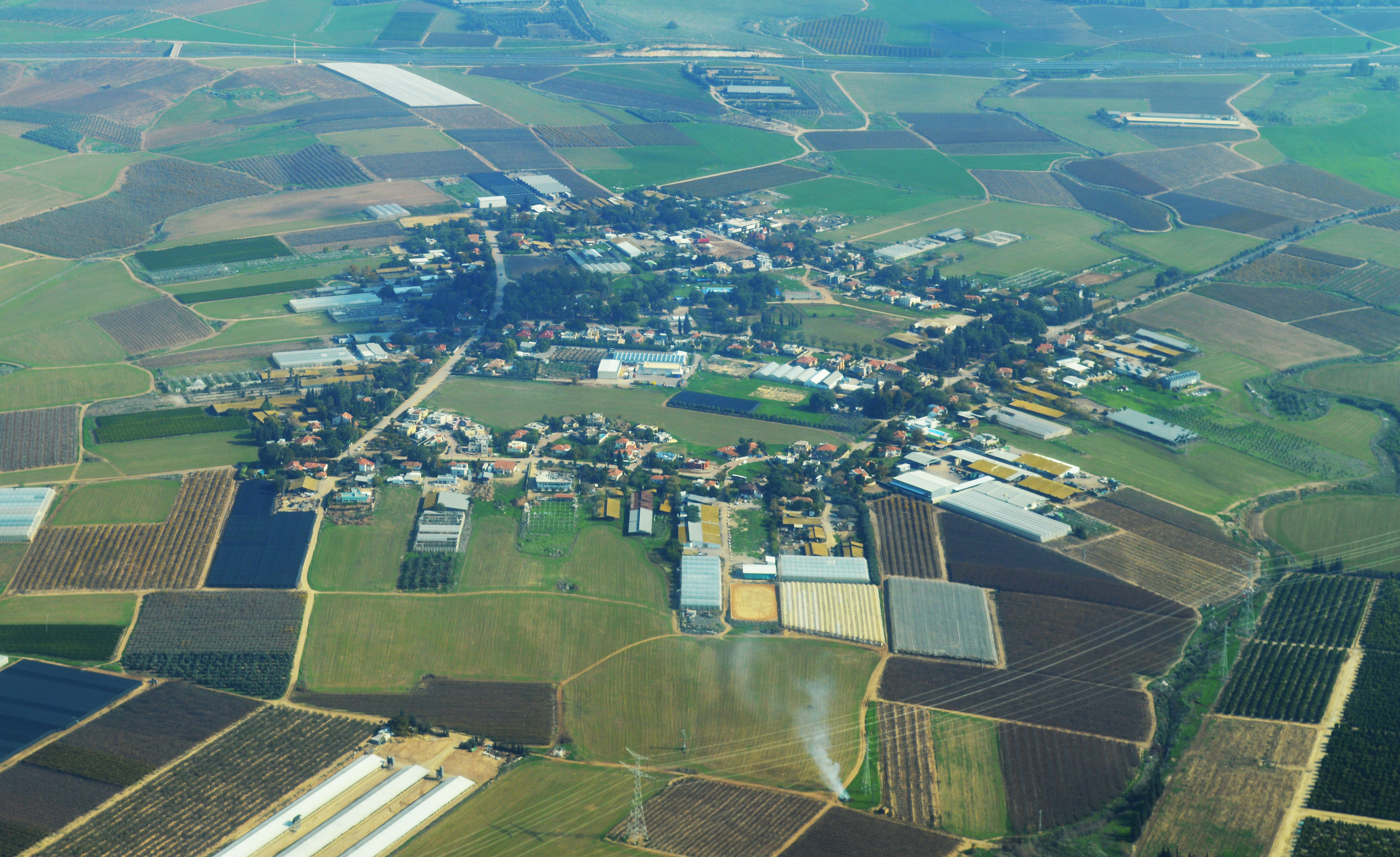 Sde Moshe Aerial View